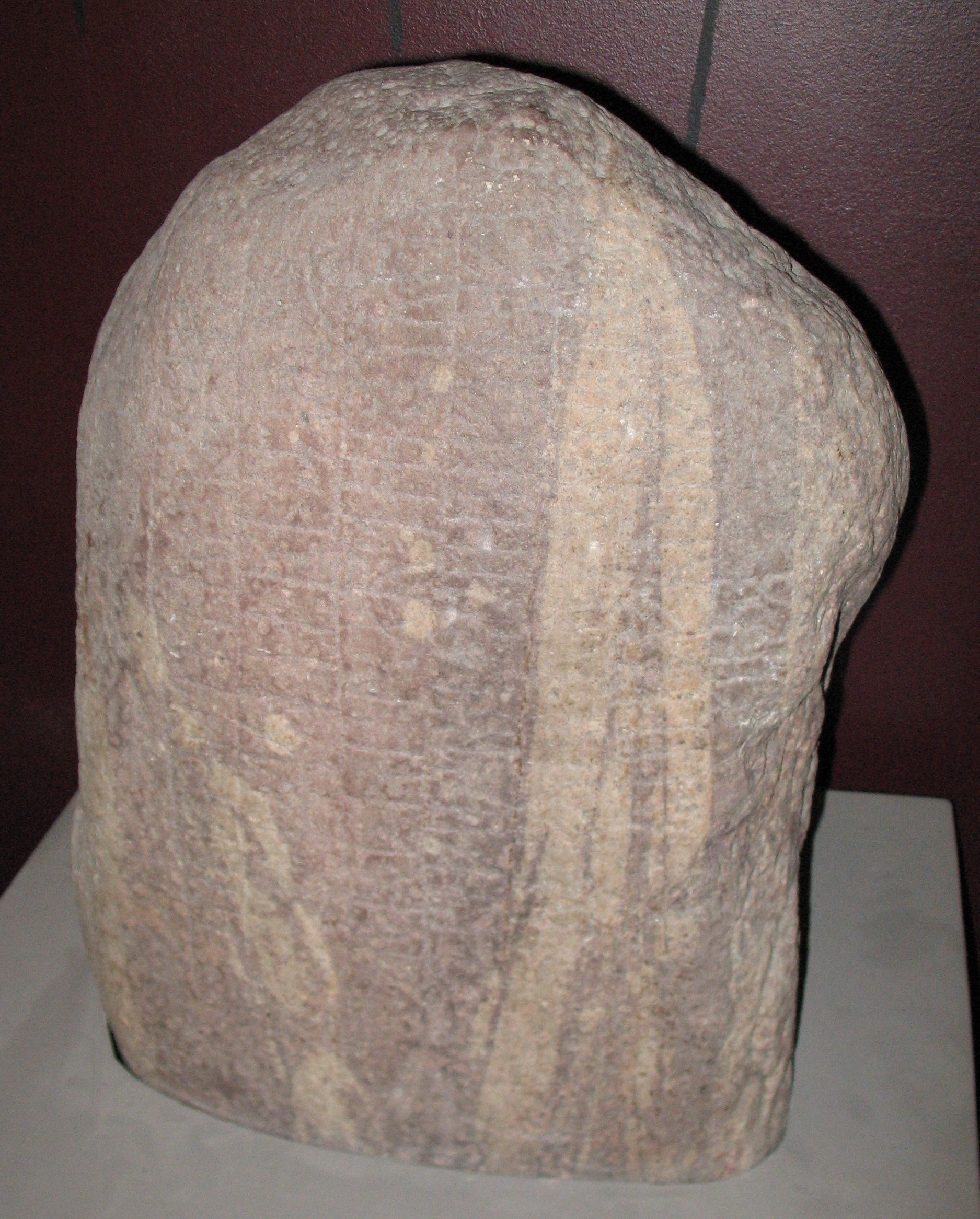 stone